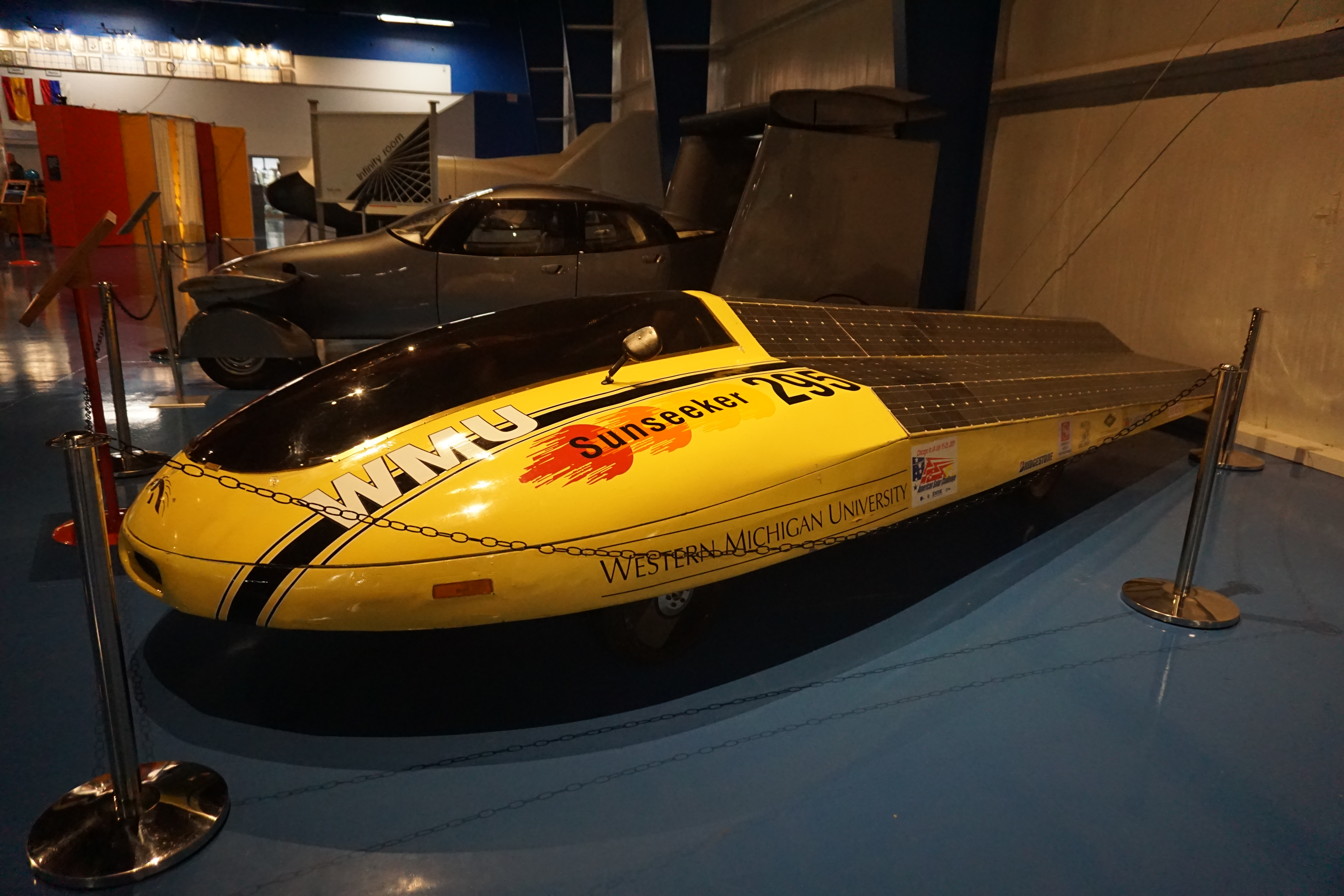 Western Michigan University's Sunseeker 295 on display at the Air Zoo at Kalamazoo/Battle Creek International Airport in Portage, Michigan (United States).